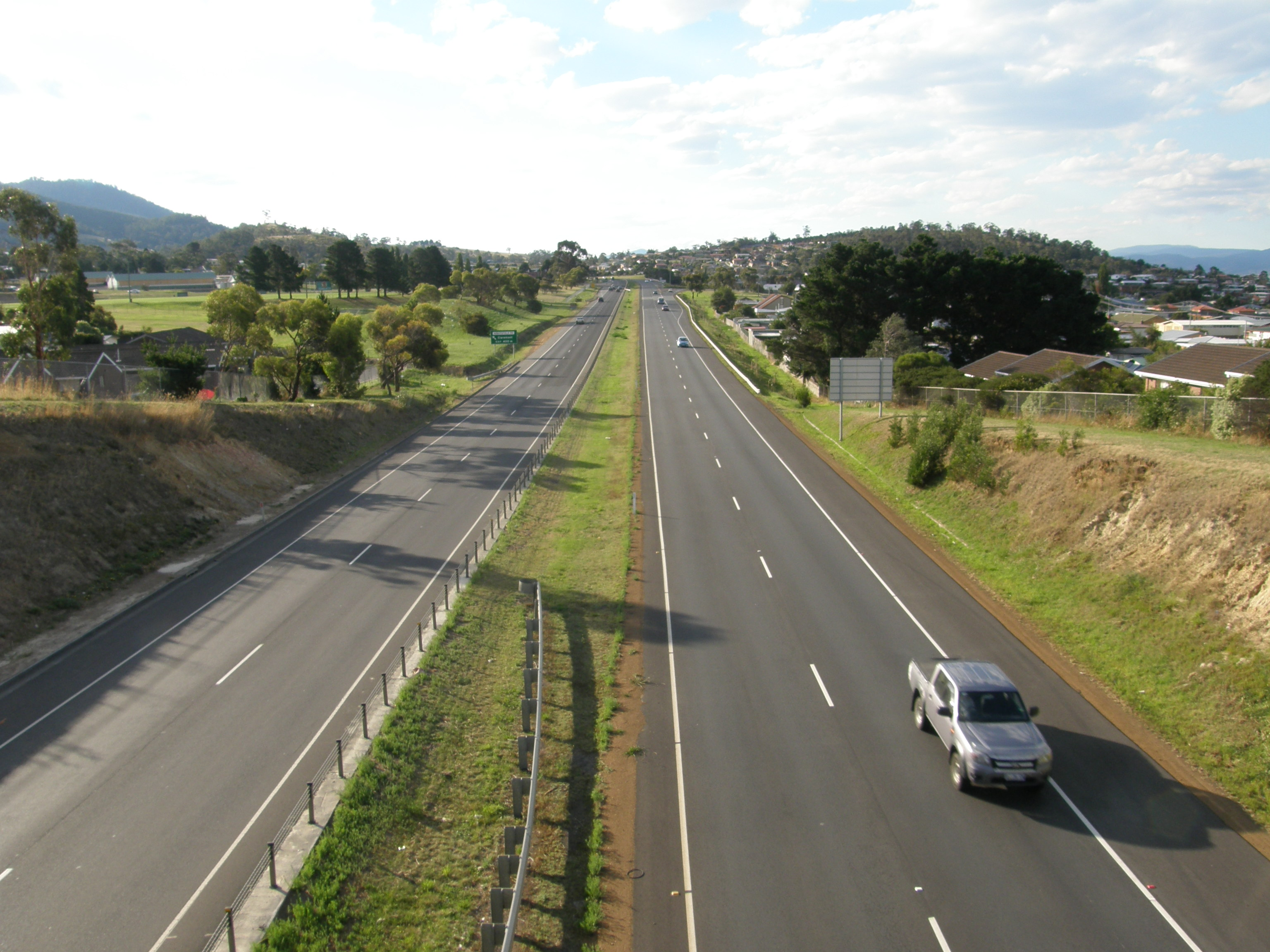 (facing Northbound) The Brooker Highway taken from Bow Hill Road, Claremont